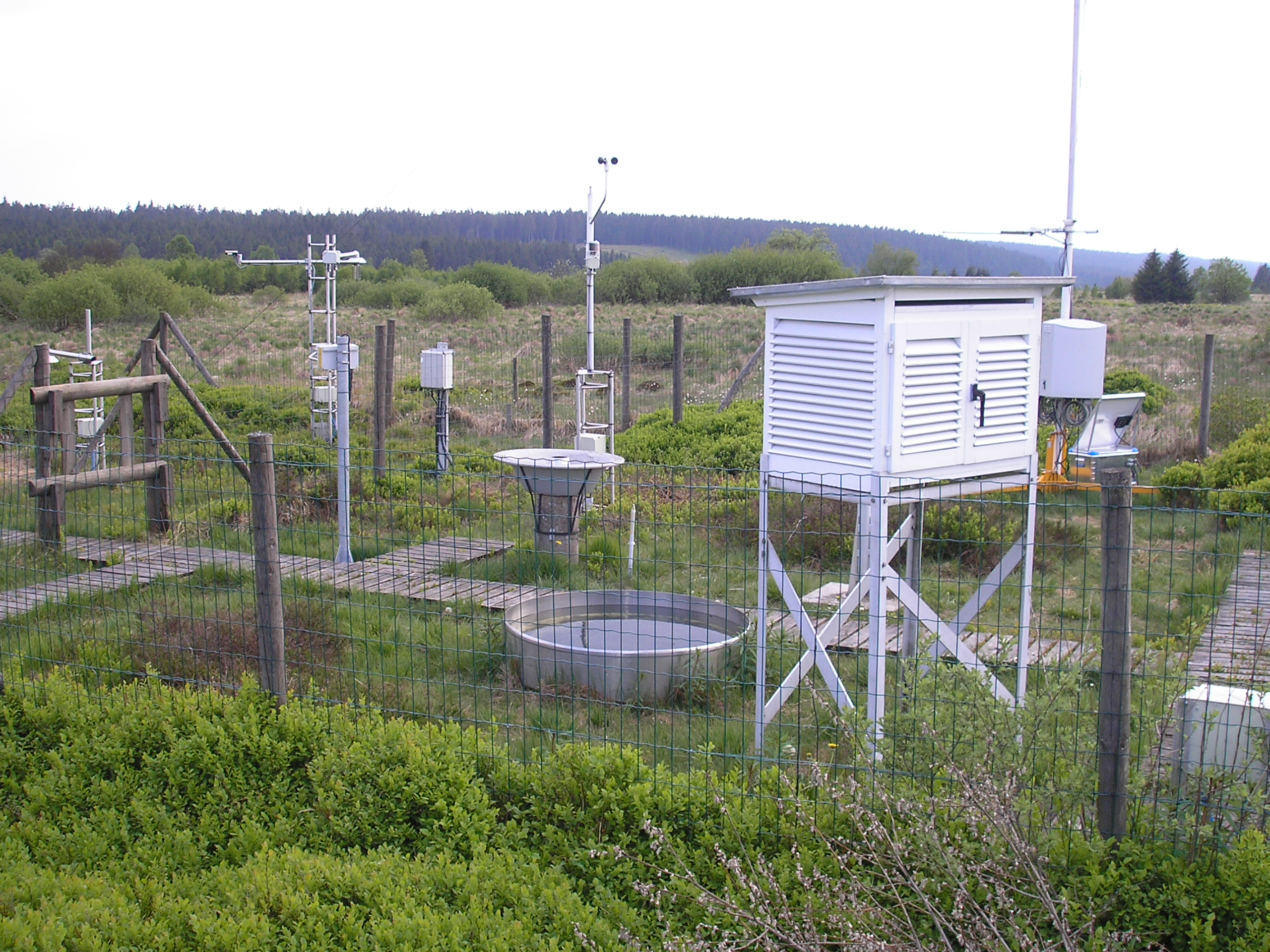 Polleurvenn, University Liege, Waimes, East Belgium